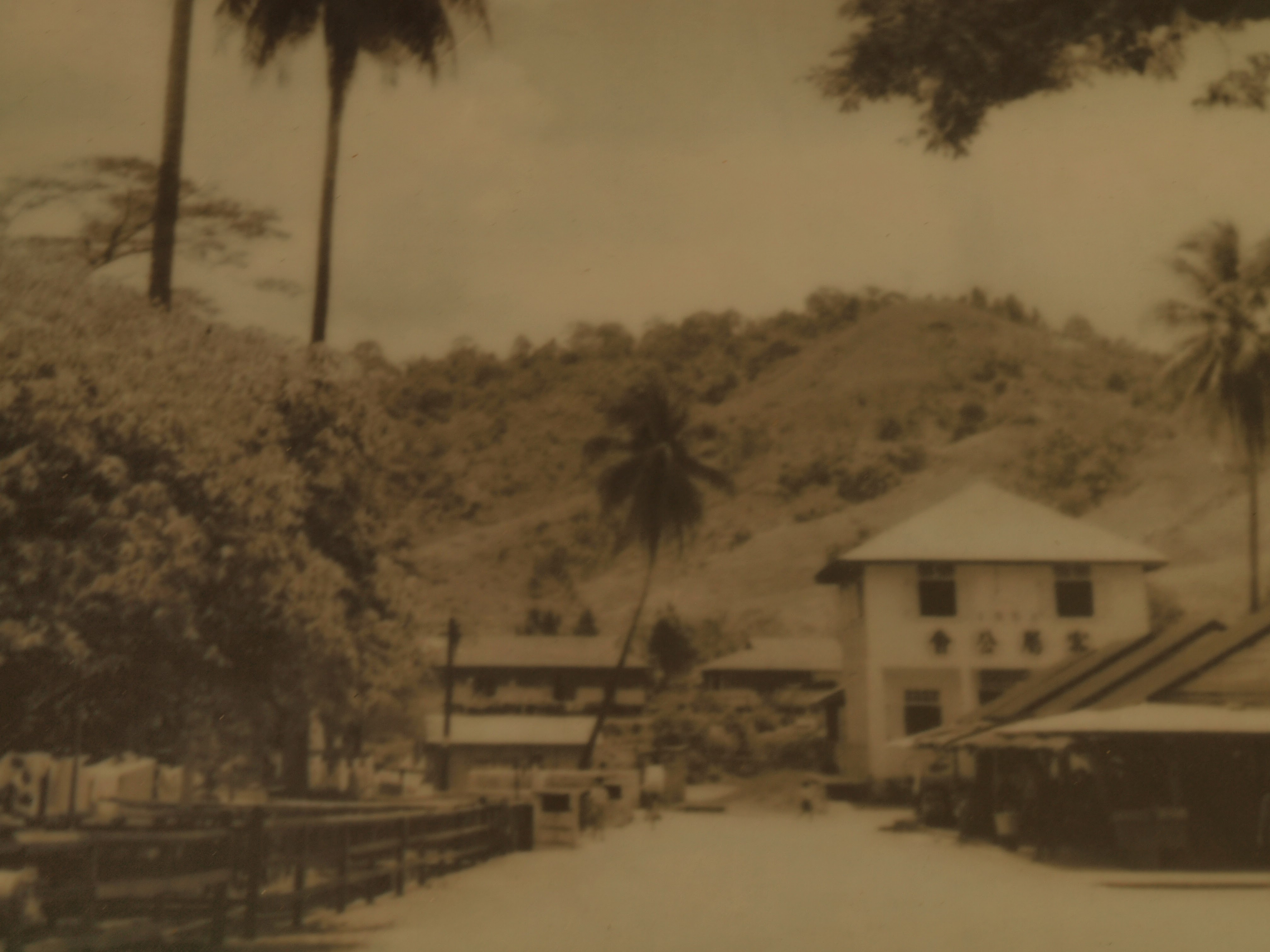 Sungai Lembing during 1920s